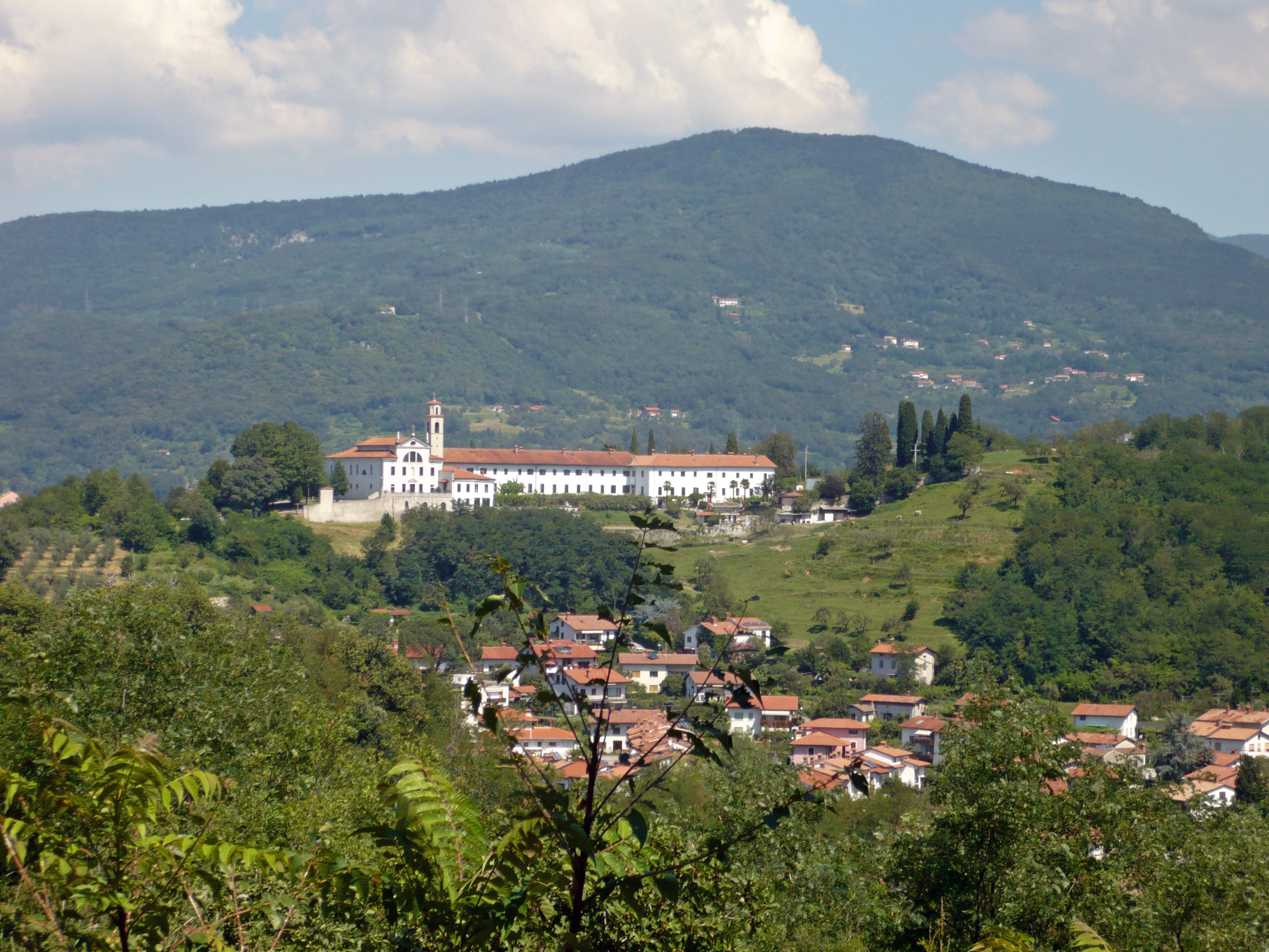 Kostanjevica Monastery (Nova Gorica, Slovenia) seen from the Castel of Gorizia.